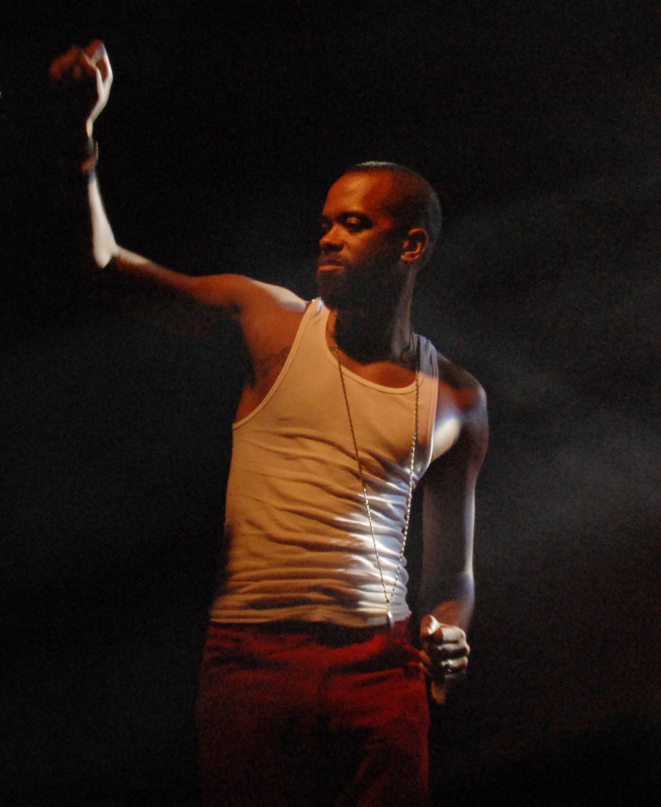 American hip-hop artist stic.man of Dead Prez live at Resistance Festival 2009, Athens, Greece.